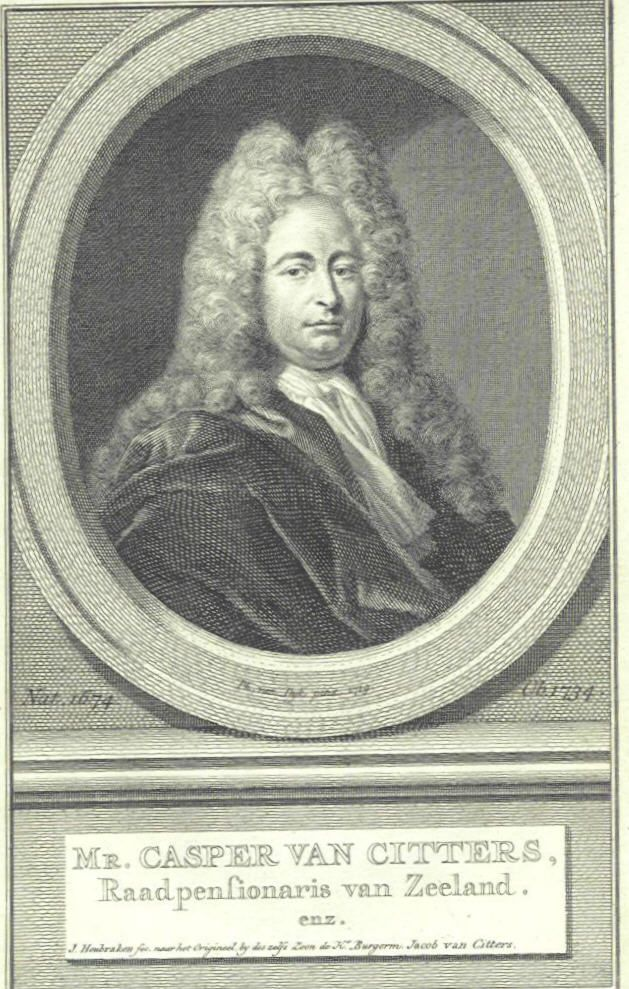 William Croft (1678-1727) - british baroque composer